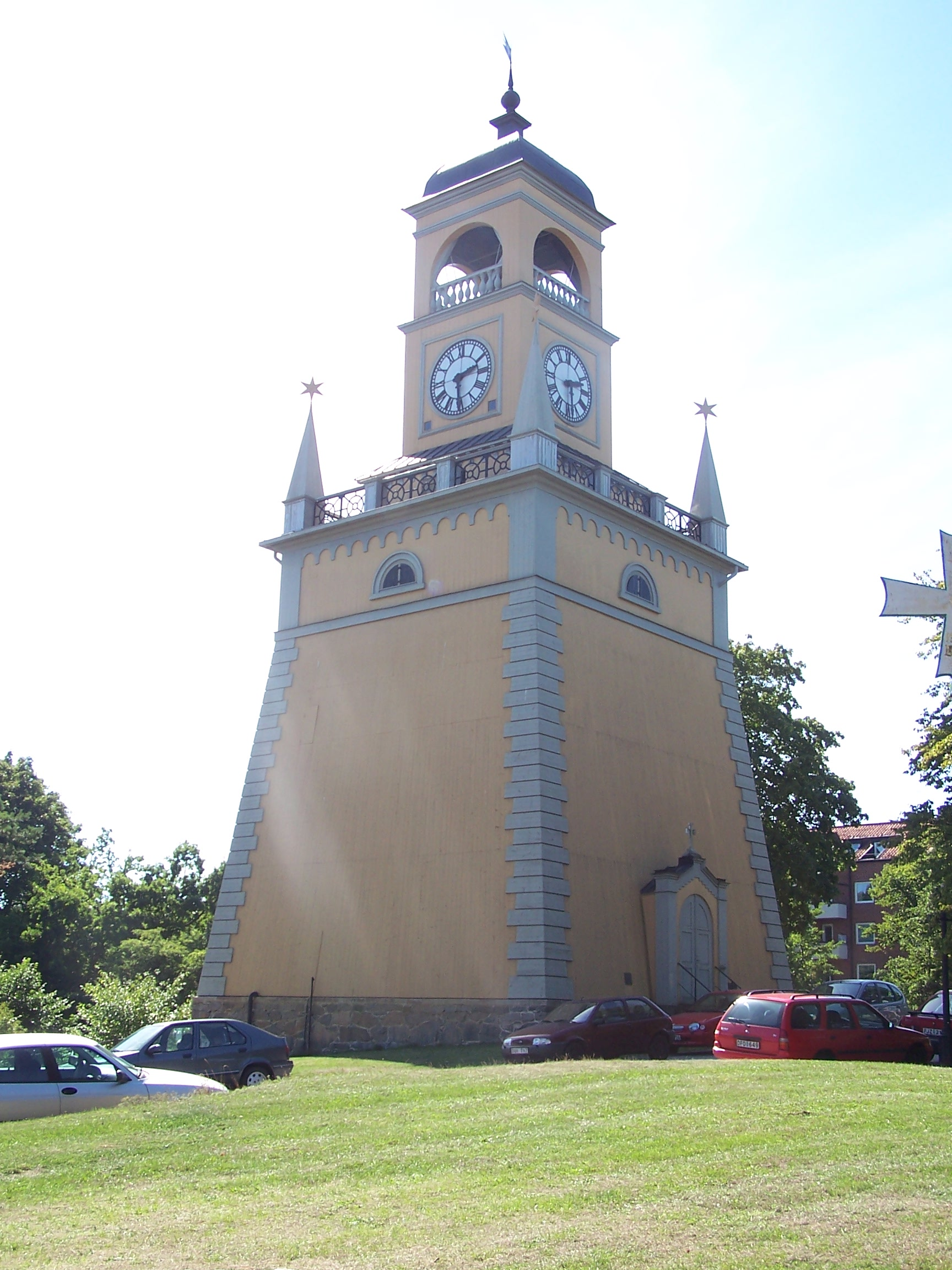 Admiralty bell tower, Karlskrona, as seen from northeast.